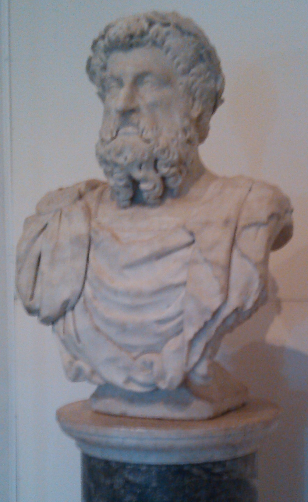 Marble bust of Andrea Doria (Italian, middle of 16th century), National Museum of Lithuania, donation of collector Edmund Armoska